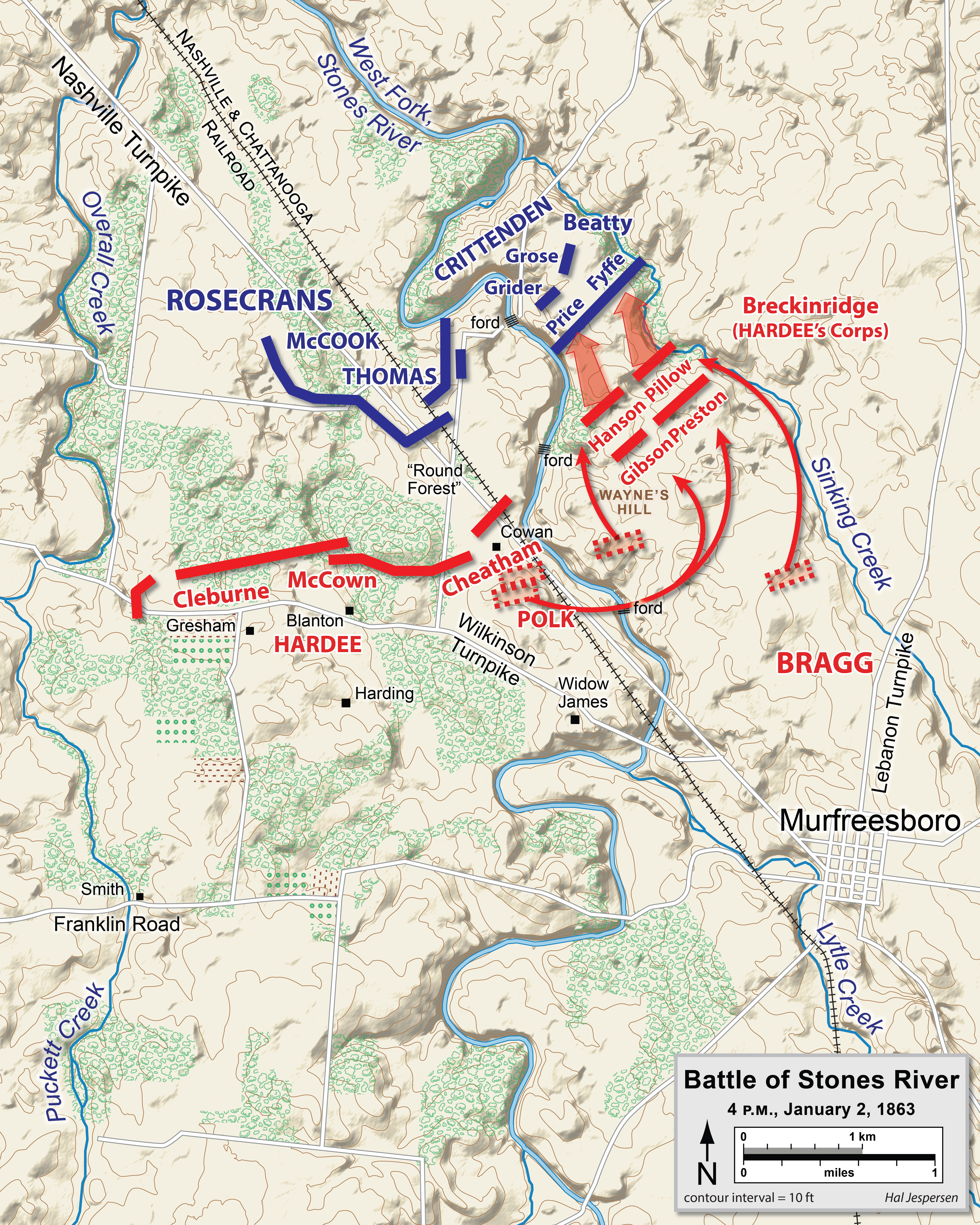 Map of the Battle of Stones River of the American Civil War.